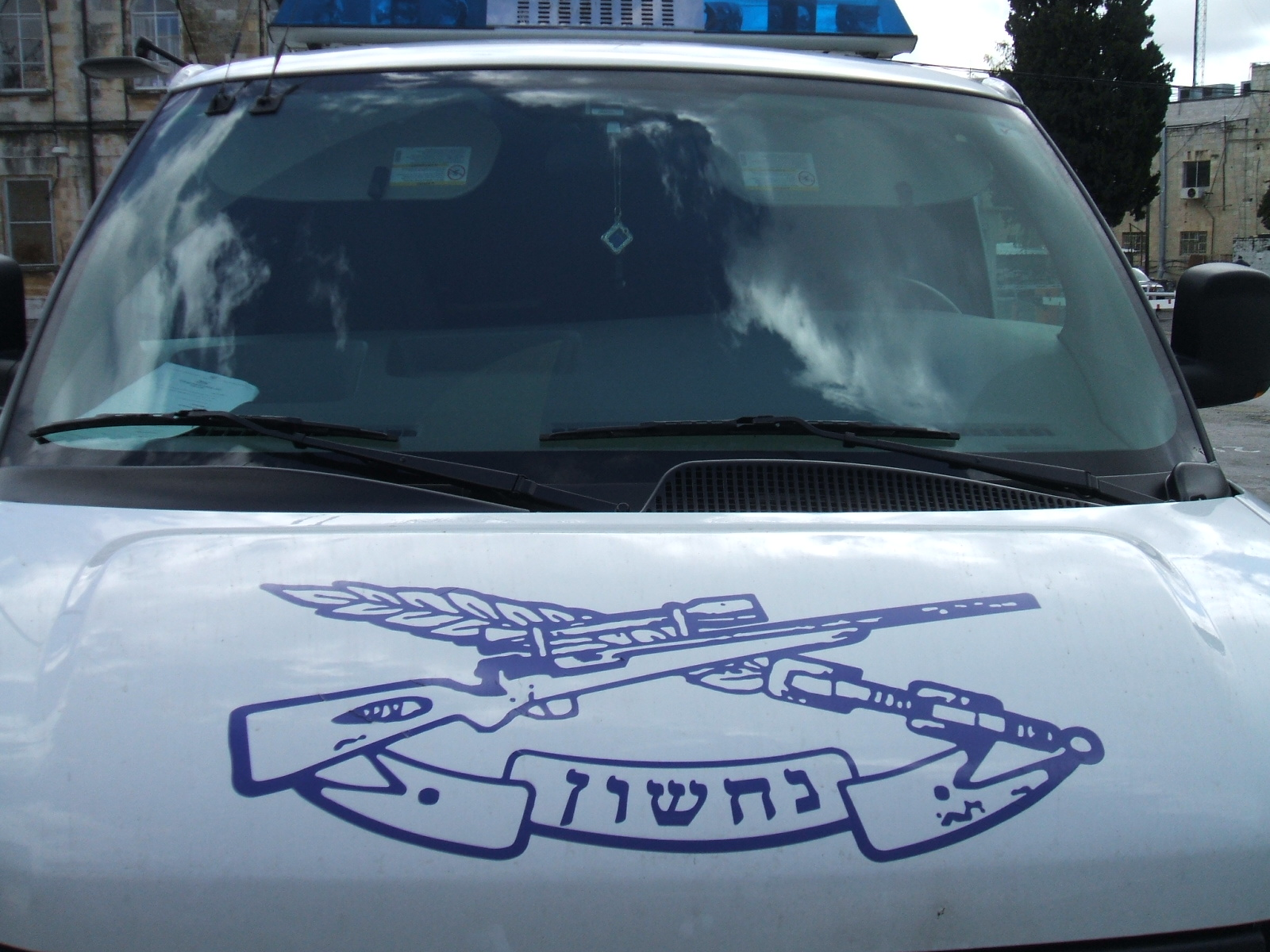 A vehicle of "Nahshon" unit, Israel prison service